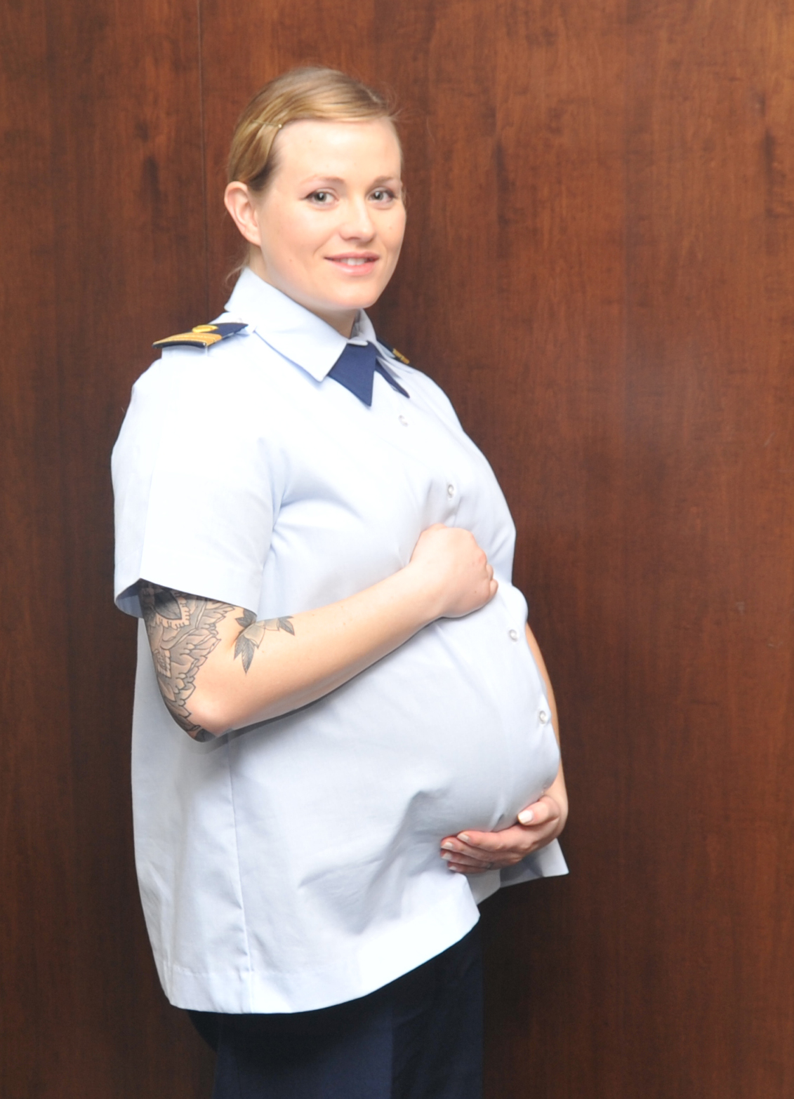 A United States Coast Guard Lieutenant in a Coast Guard maternity uniform.